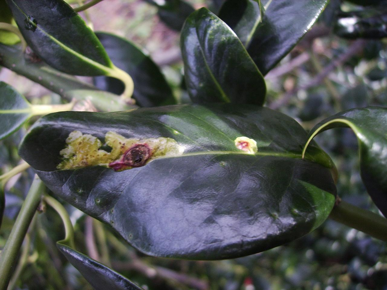 Deze foto toont een blad van hulst met de mijnen van Phytomyza ilicis. Ik nam de foto in Mariahoeve in Den Haag. This pic shows the leaves of Ilex aquifolium with Phytomyza ilicis. I took the pic myself in The Hague, Netherlands.